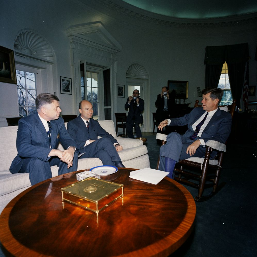 President John F. Kennedy (in rocking chair) meets with newly-appointed Ambassador of Venezuela, Dr. Enrique Tejera París; the ambassador met with President Kennedy to present his credentials. Assistant Secretary of State for Inter-American Affairs, Edwin M. Martin, sits at far left; United Press International (UPI) photographer, James K. W. Atherton, stands in the background. Oval Office, White House, Washington, D.C.